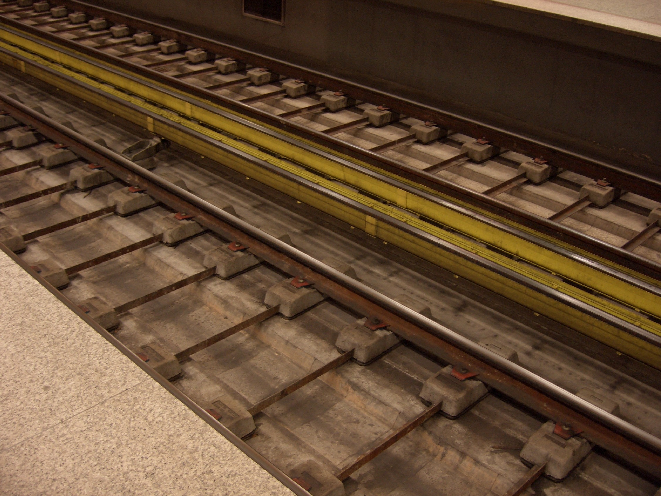 Track of the Athens Metro.